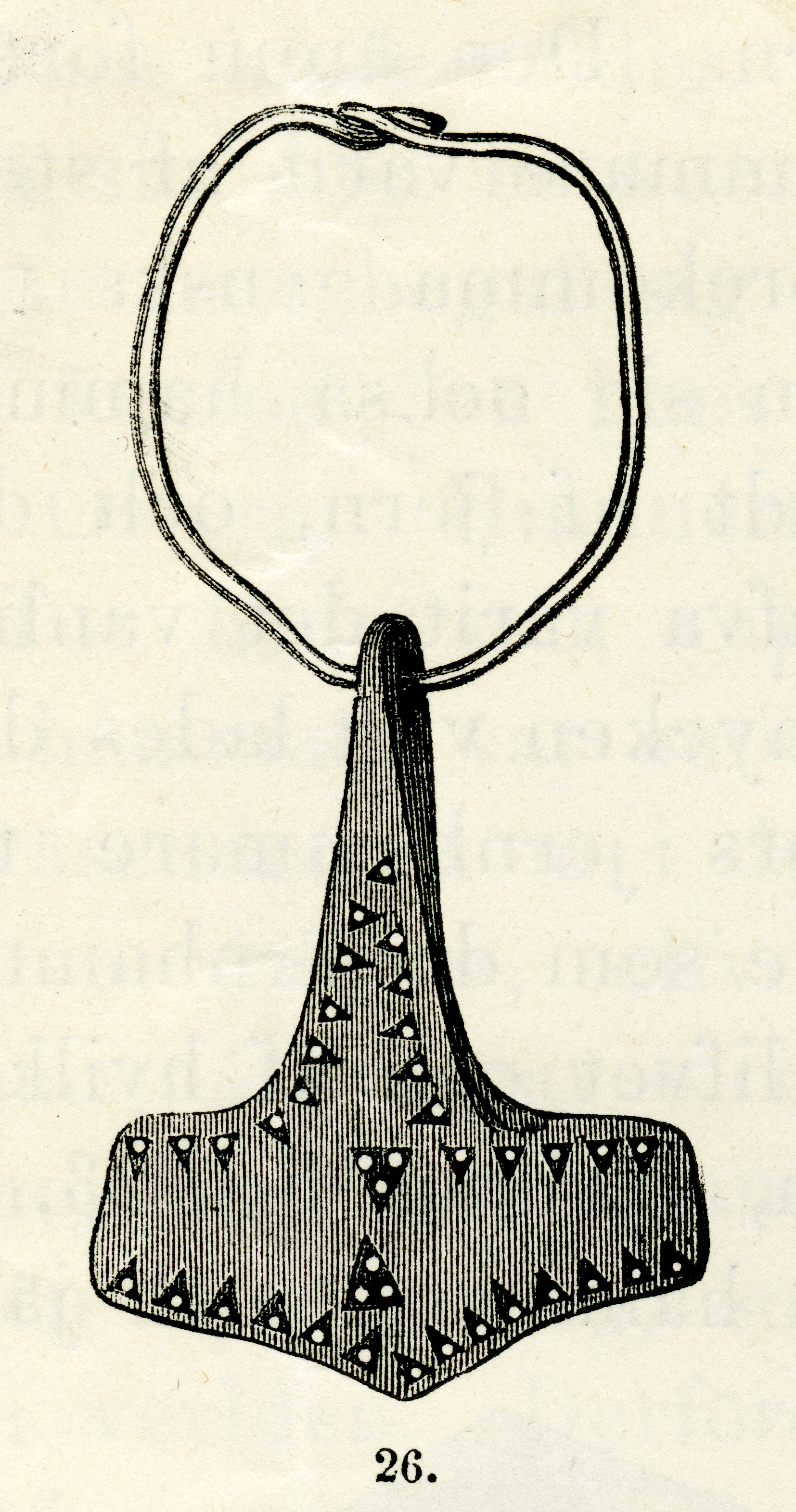 Thor's hammer of silver from Gärsnäs, Östra Herrestad parish, Ingelstad hundred, Simrishamn municipality, Skåne, Sweden.